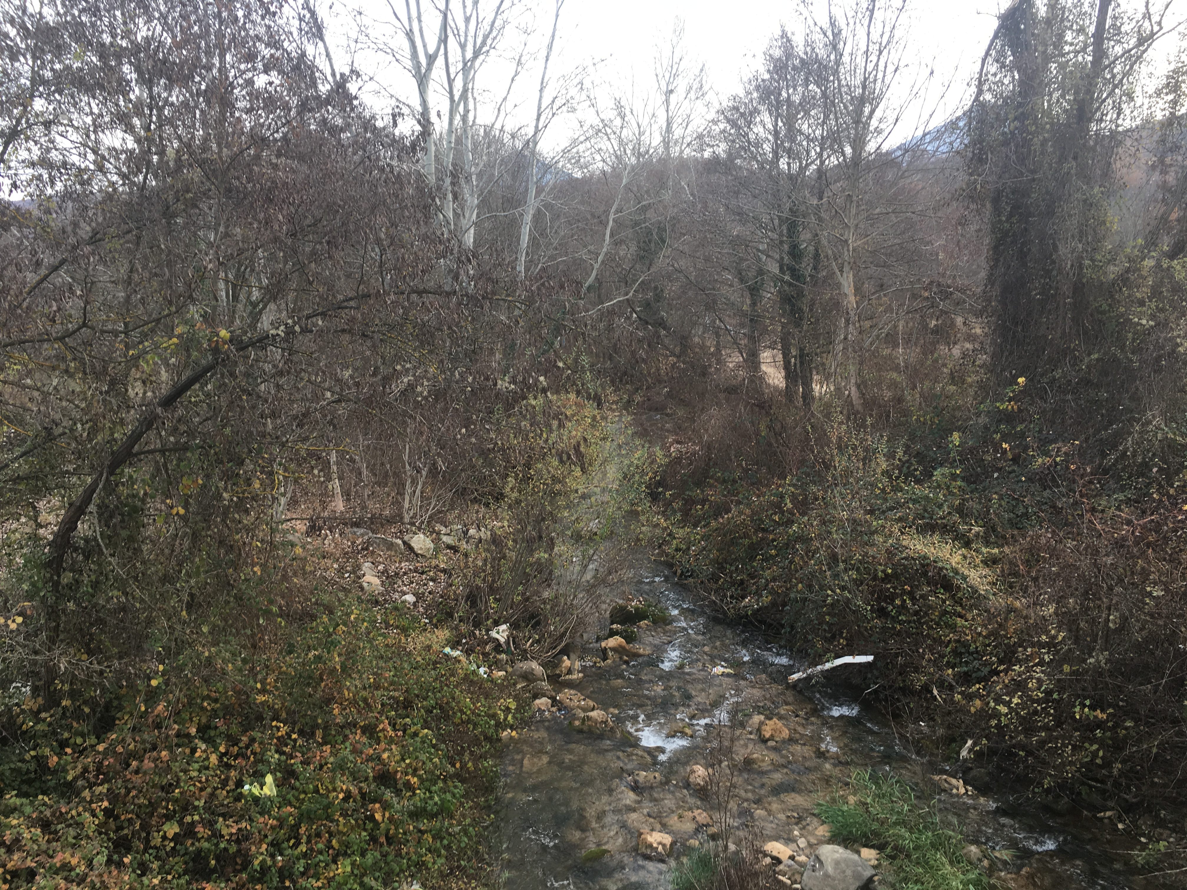 Raec River near the eponymous village